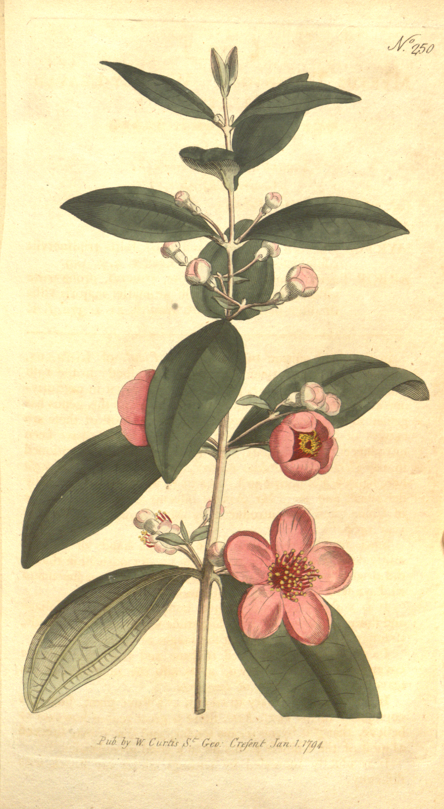 This is a plate from The Botanical Magazine, Volume 7.